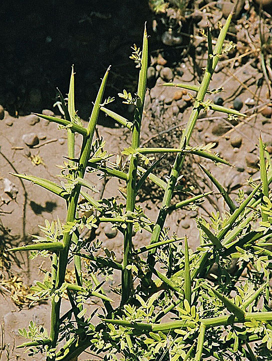 One of several species known as Barba de Chivo. Southern Argentina. In context at